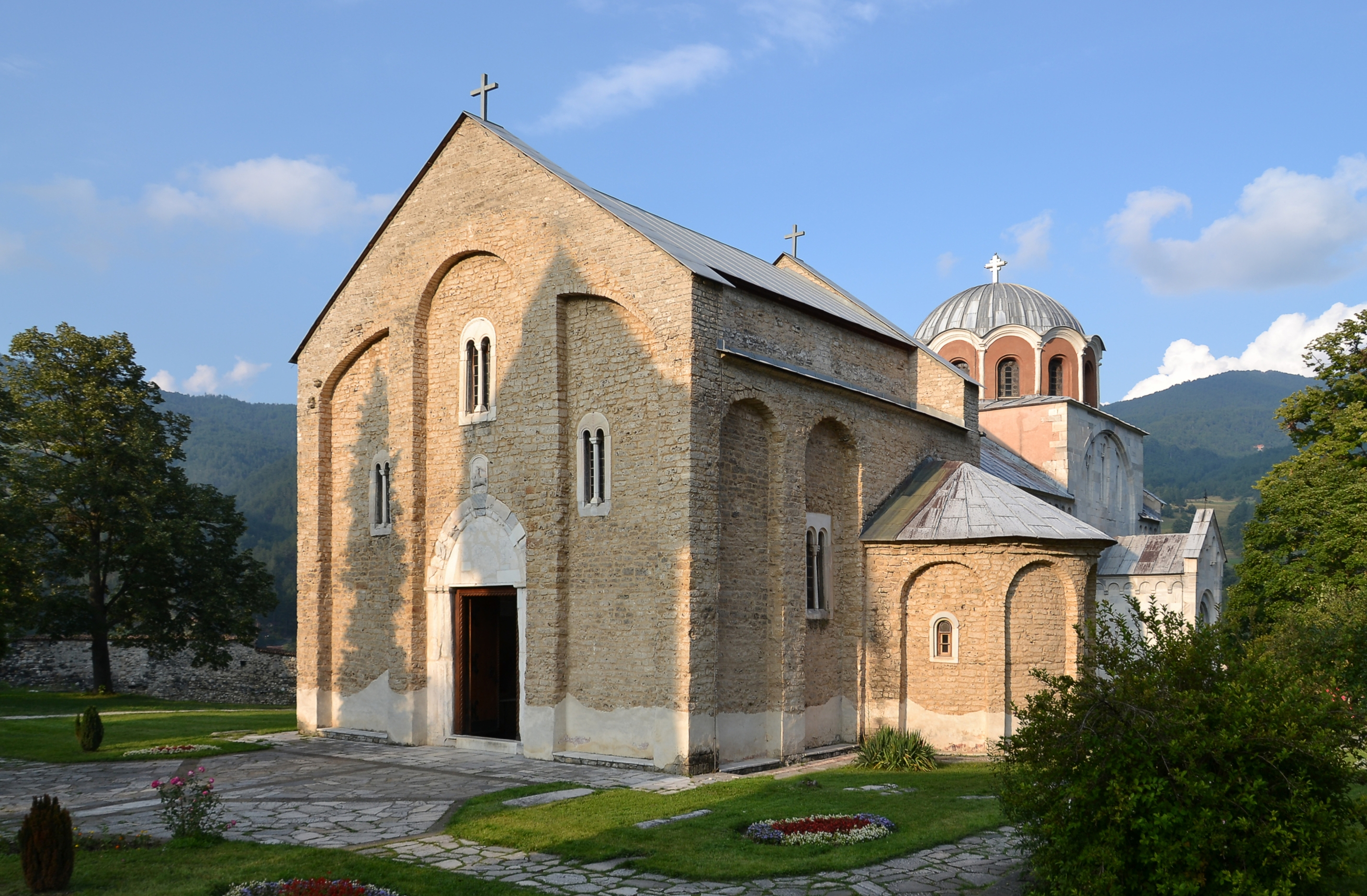 Studenica monastery, Serbia